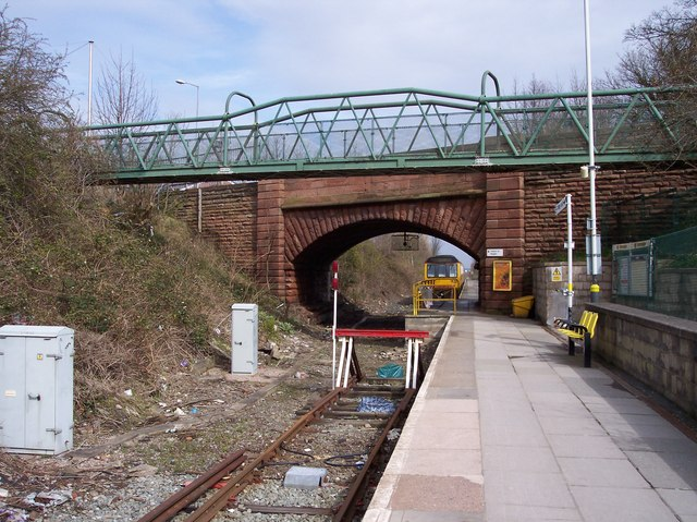 Kirkby Station View from Mersey Electric side of the road bridge, showing the Wigan train about to return for Manchester.